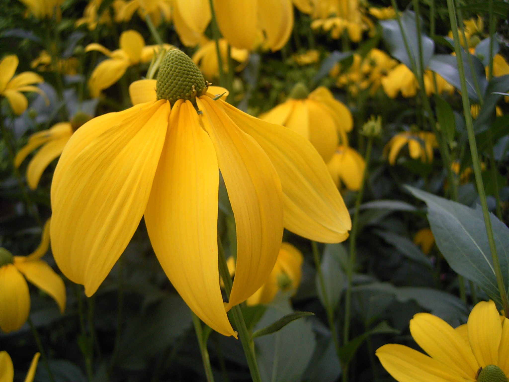 Deze foto toont een bloem van de Slipbladige rudbeckia. Ik nam deze foto op 20 augustus 2005 in onze tuin. This photo shows a flower of Rudbeckia laciniata. I took the photo on Aug 20 2005 in our garden.